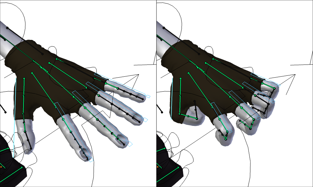 OpenGL render of the hand rig of the main character in the open source project Sintel. Made in Blender and the GIMP; simplified Sintel model by Ben Dansie.